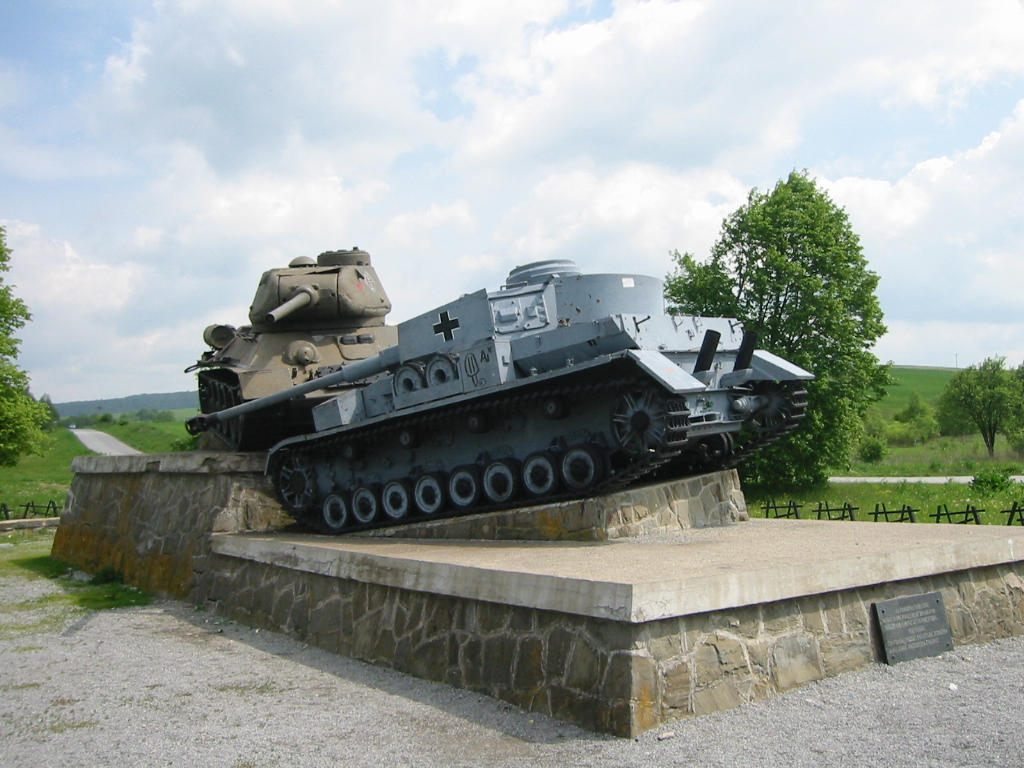 Russian Soviet Tank Slovakia